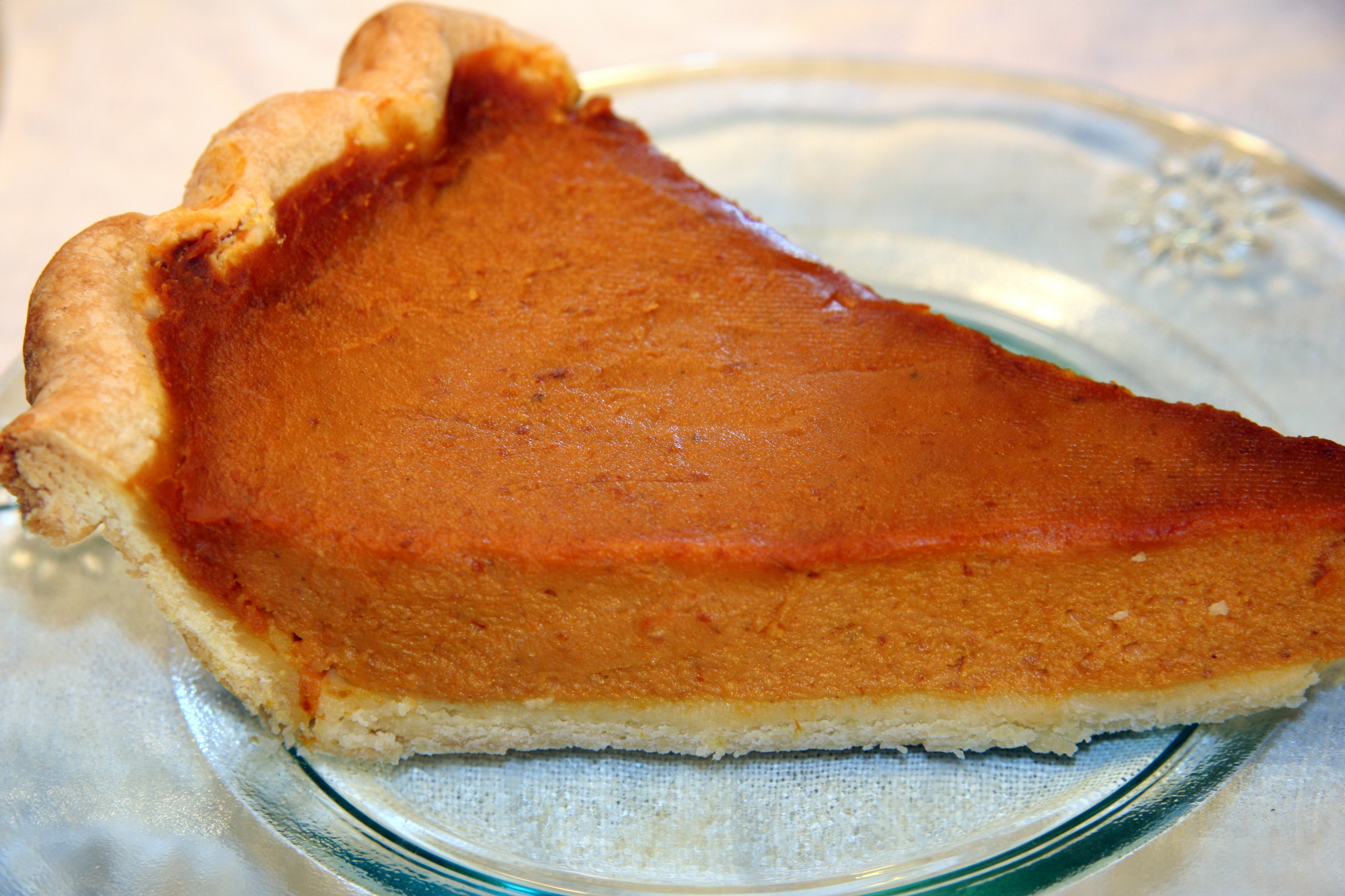 A slice of homemade Thanksgiving pumpkin pie served on a glass plate